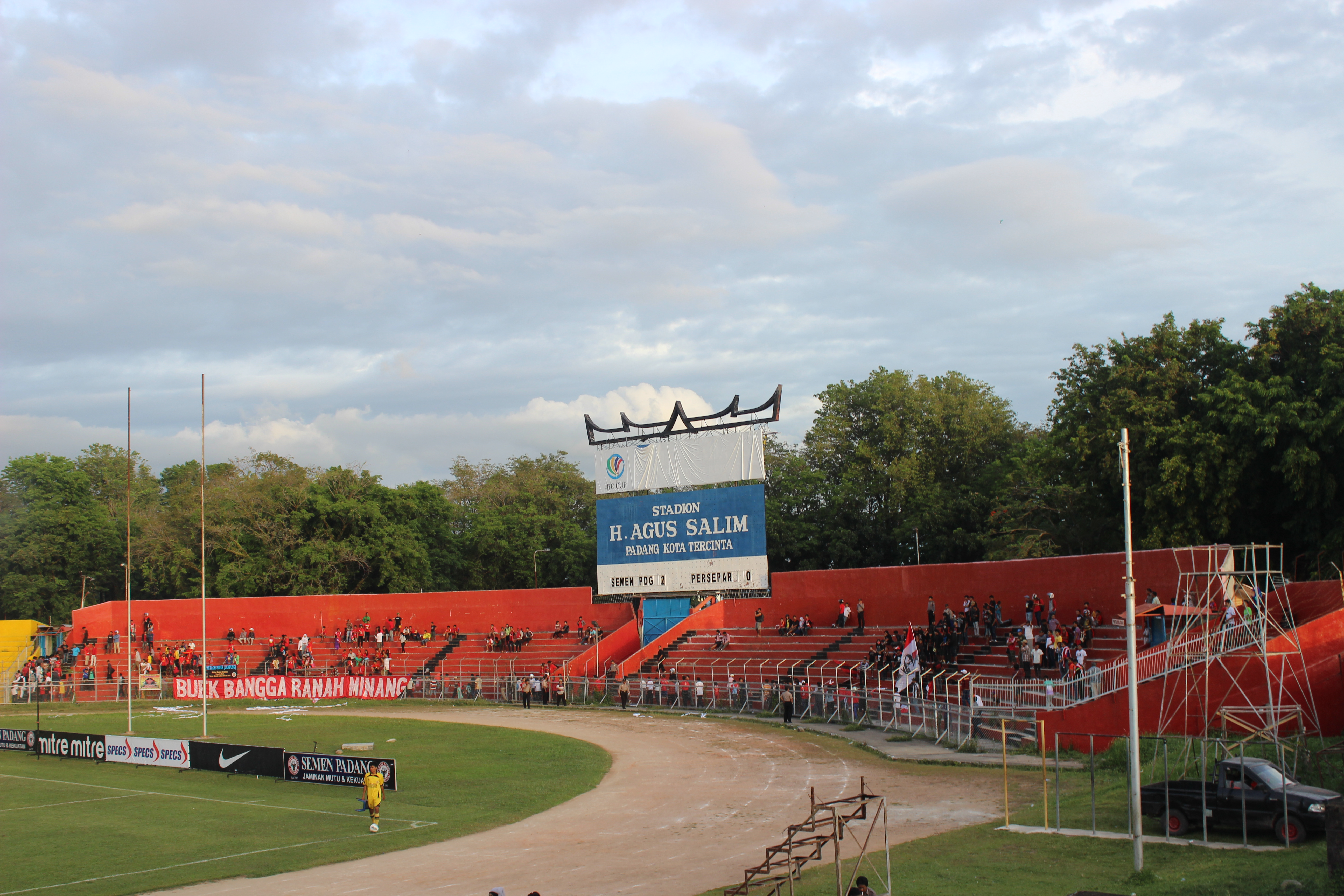 Stadion Haji Agus Salim south stand during Semen Padang vs Persepar Palangkaraya game in July 3rd, 2013. This part of stadium traditionally acquired by the Spartacks, one of the supporter group of Semen Padang.